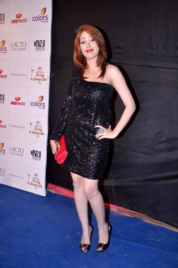 colors indian telly awards